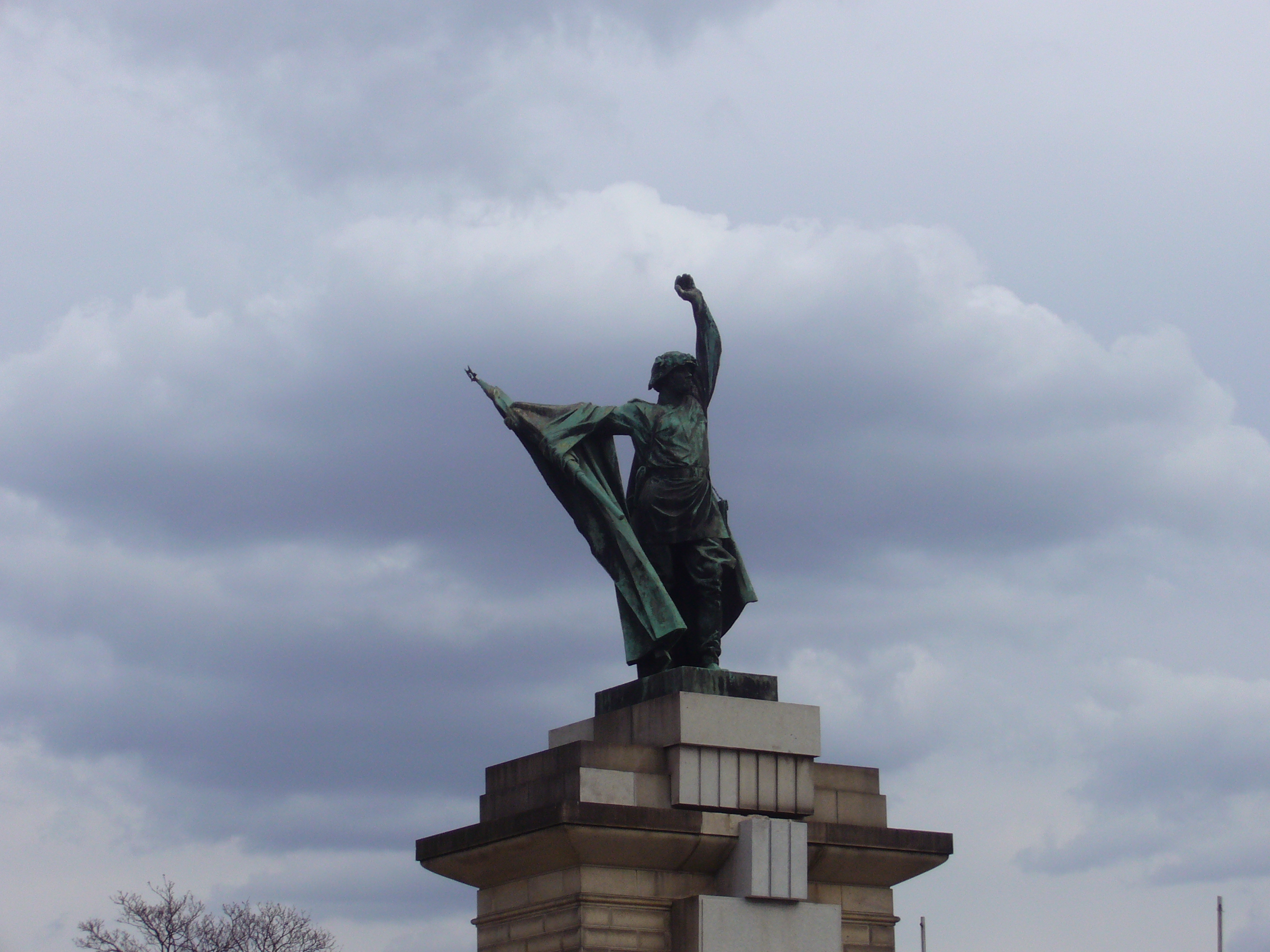 Statue of Red Army soldier by Vincenc Makovský in Brno